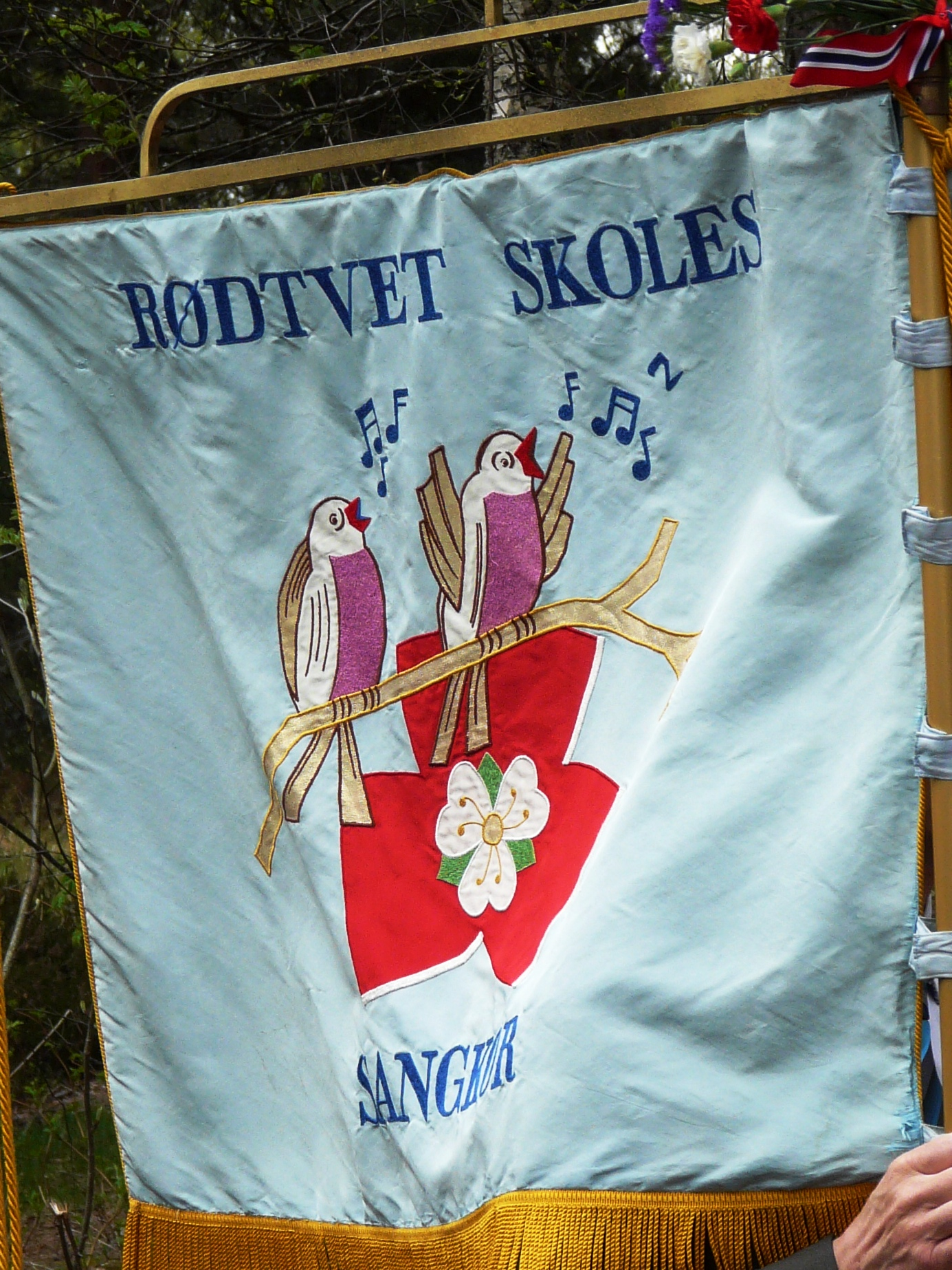 Banner of Rødtvet school choir, Norway's national day 17th of May 2013.